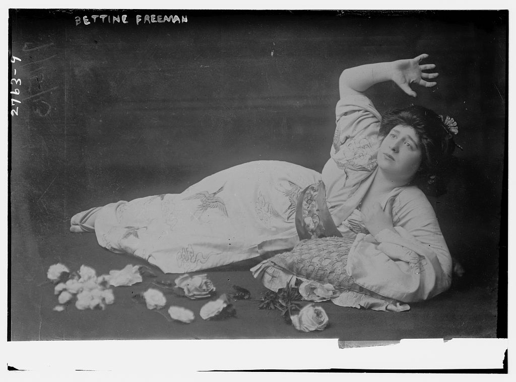 Bain News Service,, publisher. Bettina Freeman circa 1913 [no date recorded on caption card] 1 negative : glass ; 5 x 7 in. or smaller. Notes: Title from unverified data provided by the Bain News Service on the negatives or caption cards. Forms part of: George Grantham Bain Collection (Library of Congress). Format: Glass negatives. Repository: Library of Congress, Prints and Photographs Division, Washington, D.C. 20540 USA, General information about the Bain Collection is available at Persistent URL: Call Number: LC-B2- 2763-9